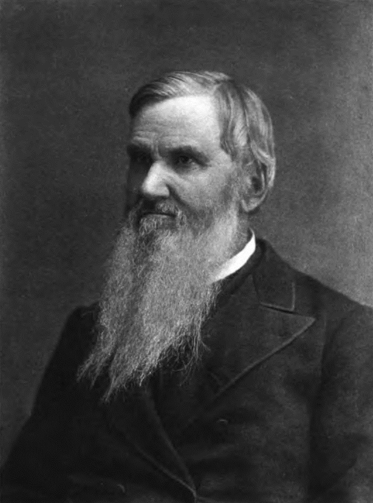 Robert Lewis Dabney